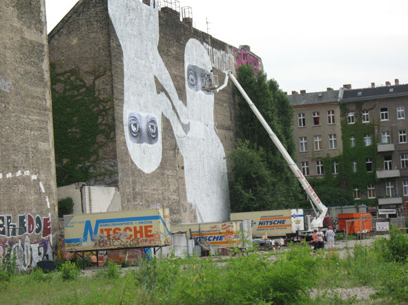 strange daylight action... Cuvry-Graffiti